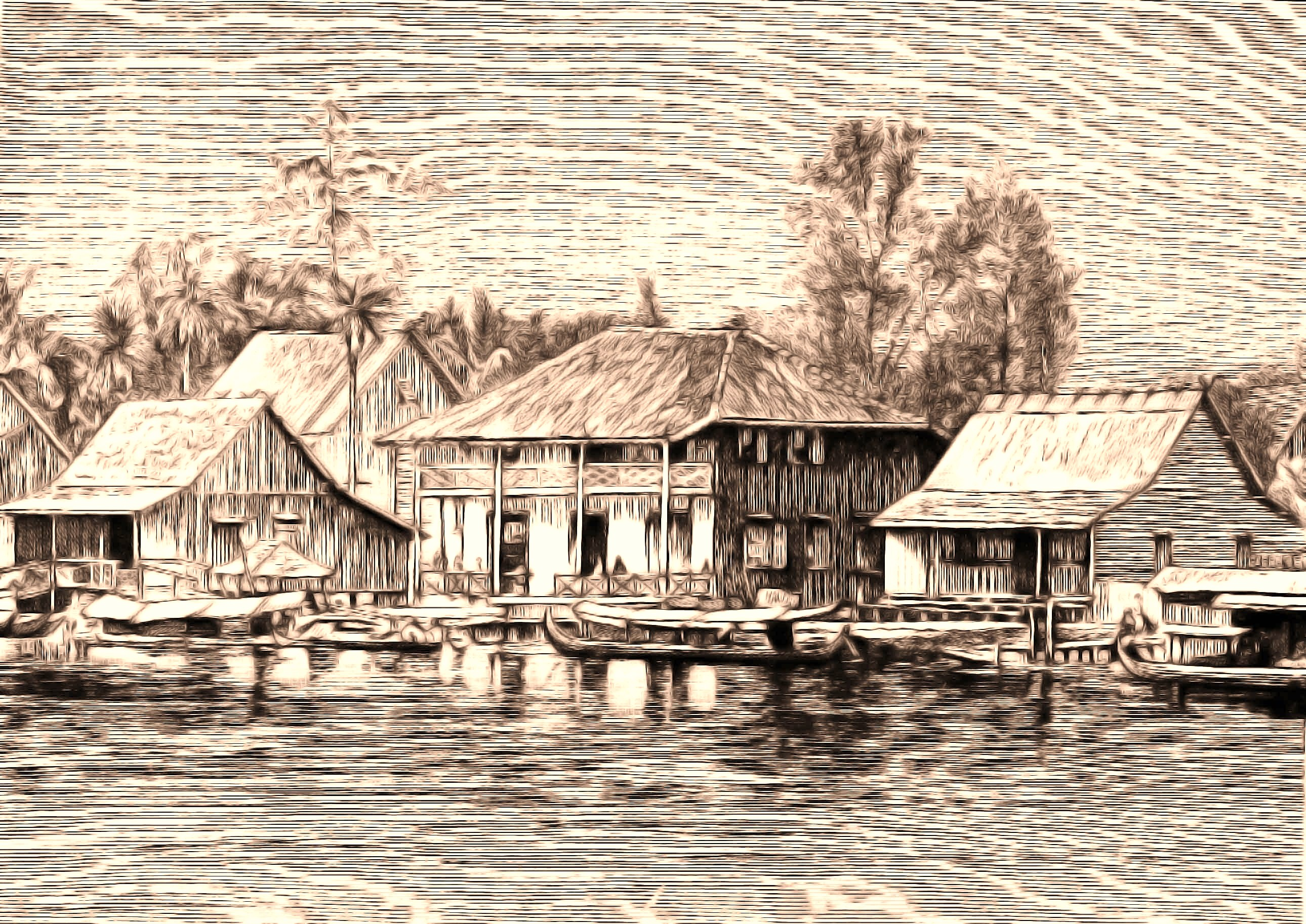 Chinese wijk te Bandjermasin